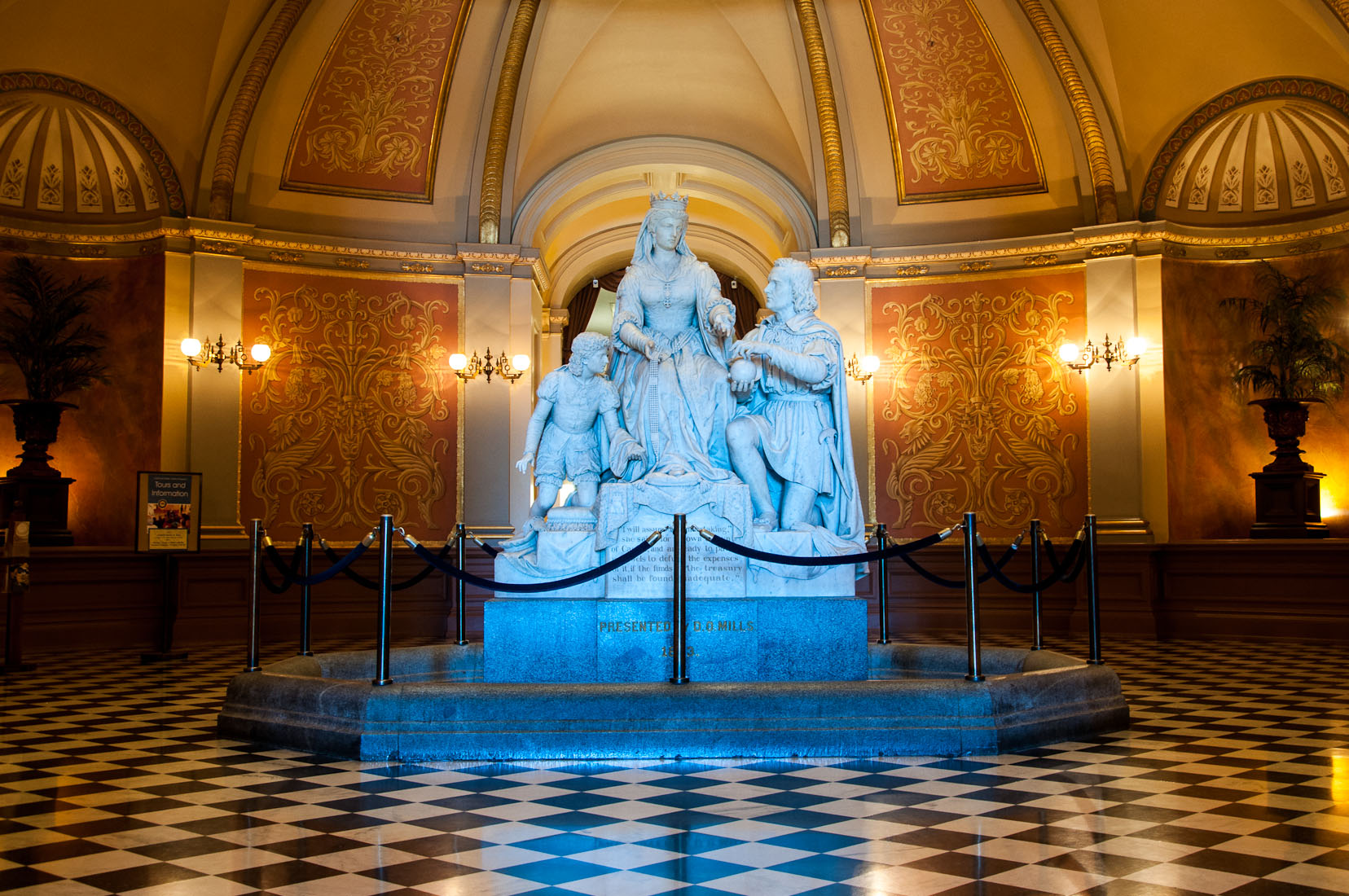 In this statue, Columbus receives dispensation from Isabella, Queen of Spain, to search for the new world.